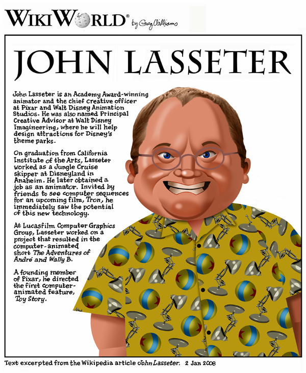 Biographical WikiWorld comic based on the article "John Lasseter"